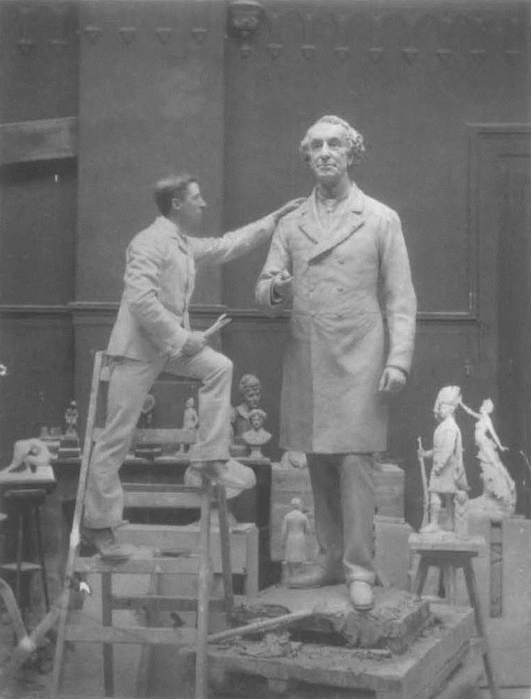 British sculptor George Edward Wade working on a statue of John A. MacDonald, the first Prime Minister of Canada, in 1892